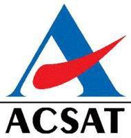 This is a logo for Asian College. Further details: Asian College old school seal/logo